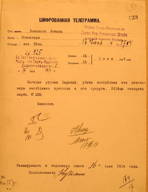 Dispatch from Viena. Sender: colonel barron A.G.Vineken, Russian military agent in Austro-Hungary. June 28, 1914. Text: "This morning in Sarajevo, the heir to the throne and his wife were slain by shots from a revolver. The assassins speak Serbian. No:205. Vineken"